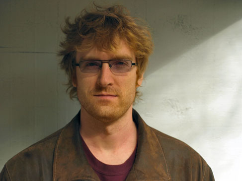 Ryan North